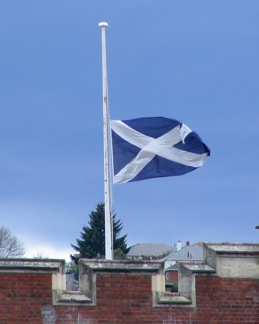 Flag of Scotland flying at half mast from Knox College, Dunedin, New Zealand